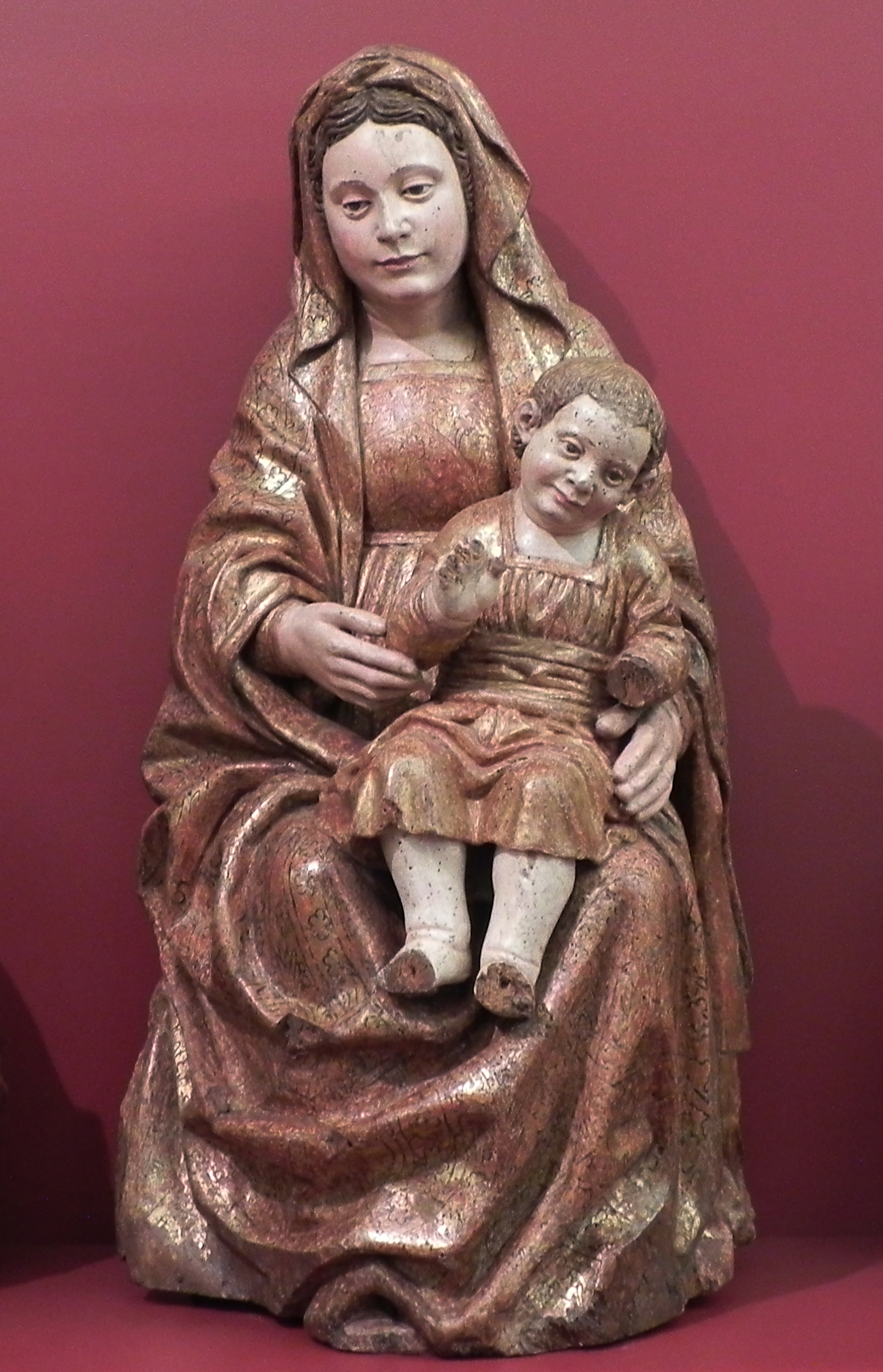 Pietro Bussolo "Madonna and child", polychrome wood statue, around 1498 Museo della Basilica - Gandino (BG)